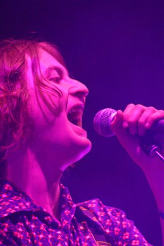 Live, David McCabe of The Zutons.